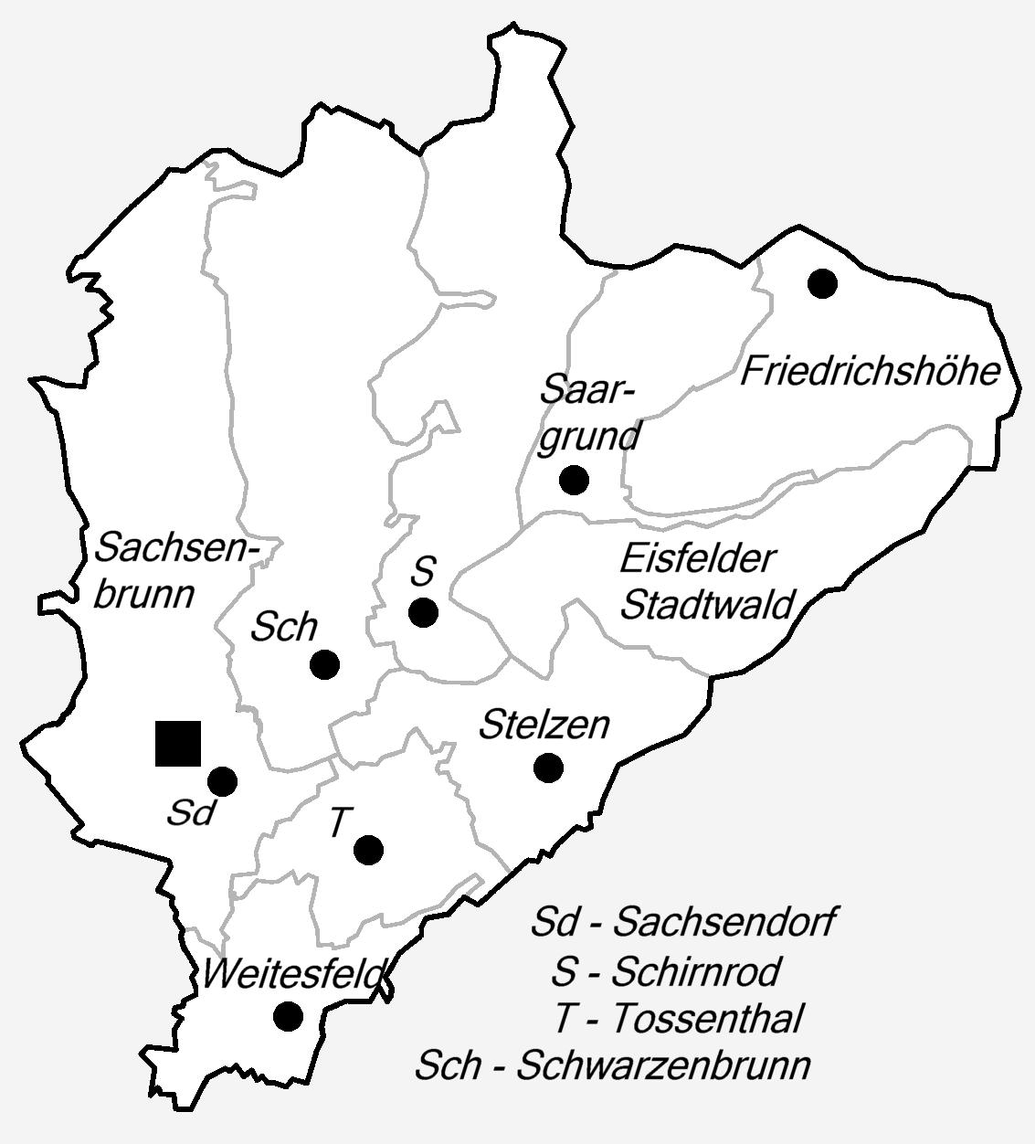 District-Maps of Sachsenbrunn in Thruringia.